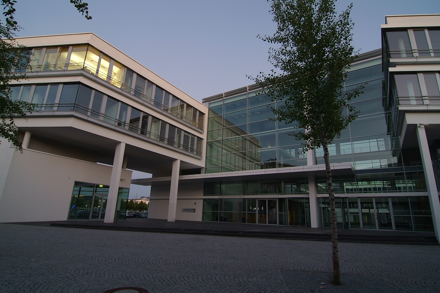 The company headquarter of Nemetschek AG in Munich, Germany